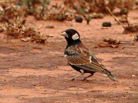 A male Chestnut-backed Sparrow-lark near Tugela Ferry, KwaZulu-Natal, South Africa.